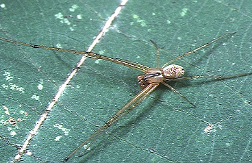 male Tylorida striata from Okinawa.